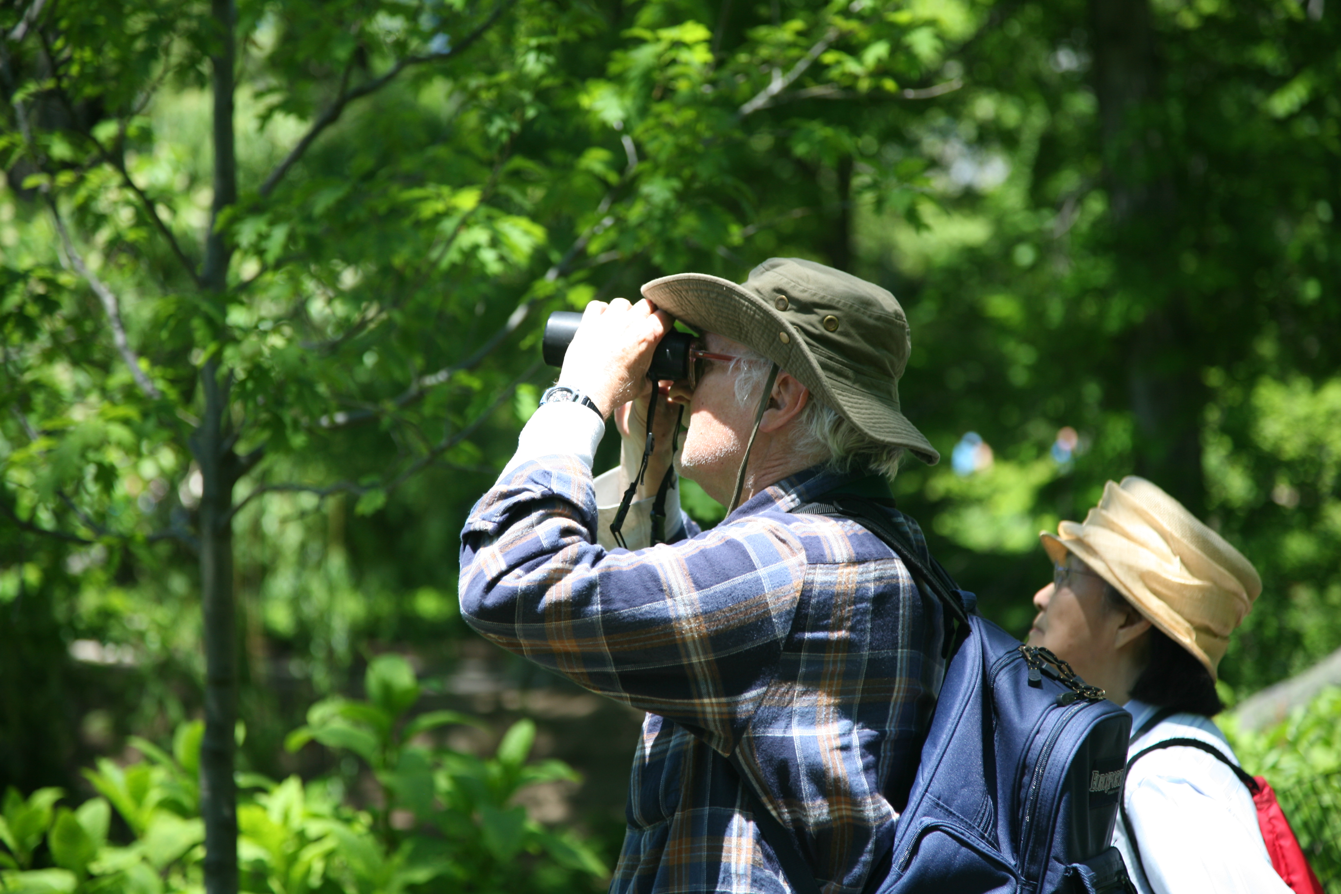 Birdwatchers in Central Park, New York City